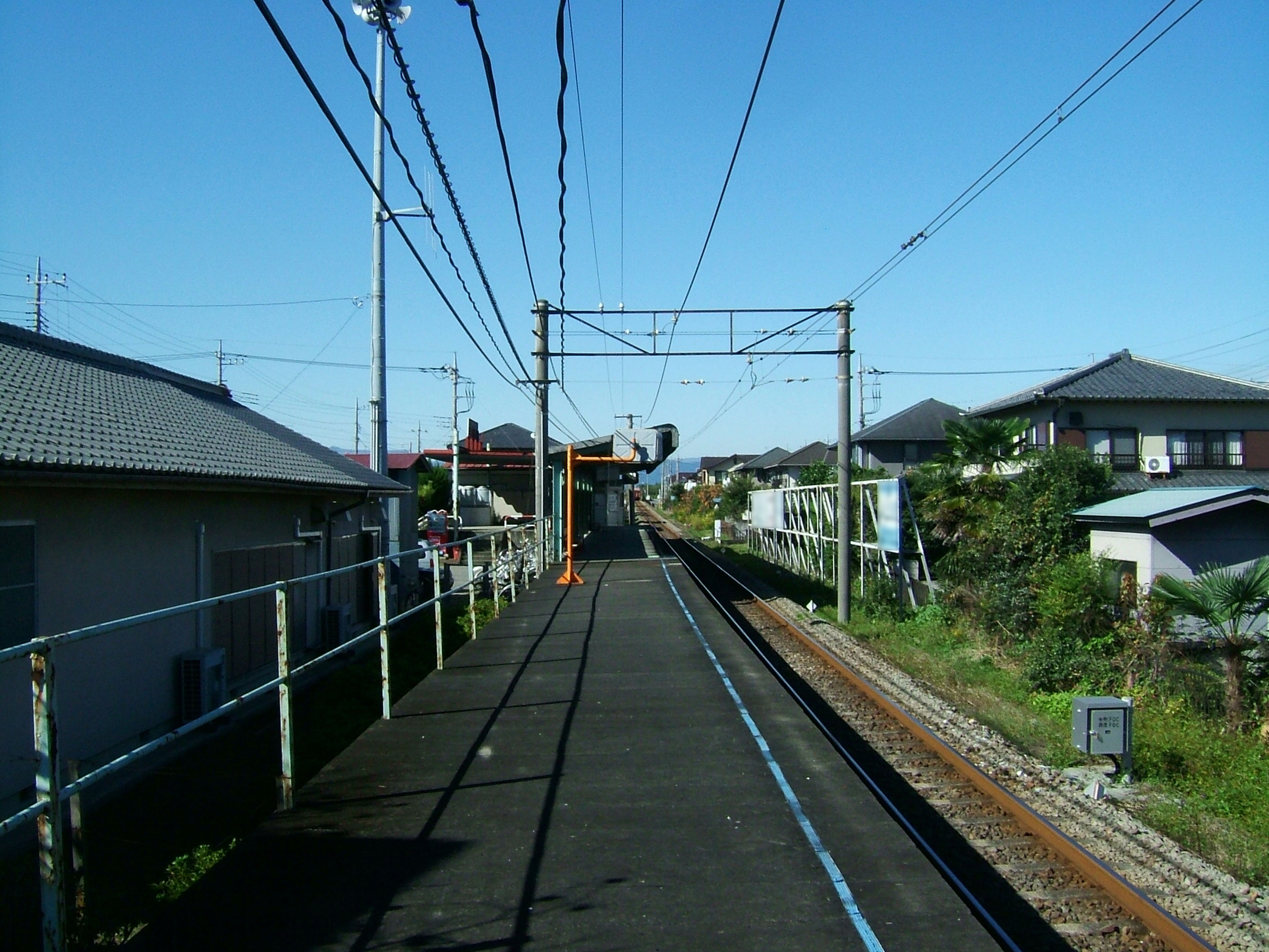 Nishi-Yoshii Station platform (Jōshin Dentetsu Jōshin Line)